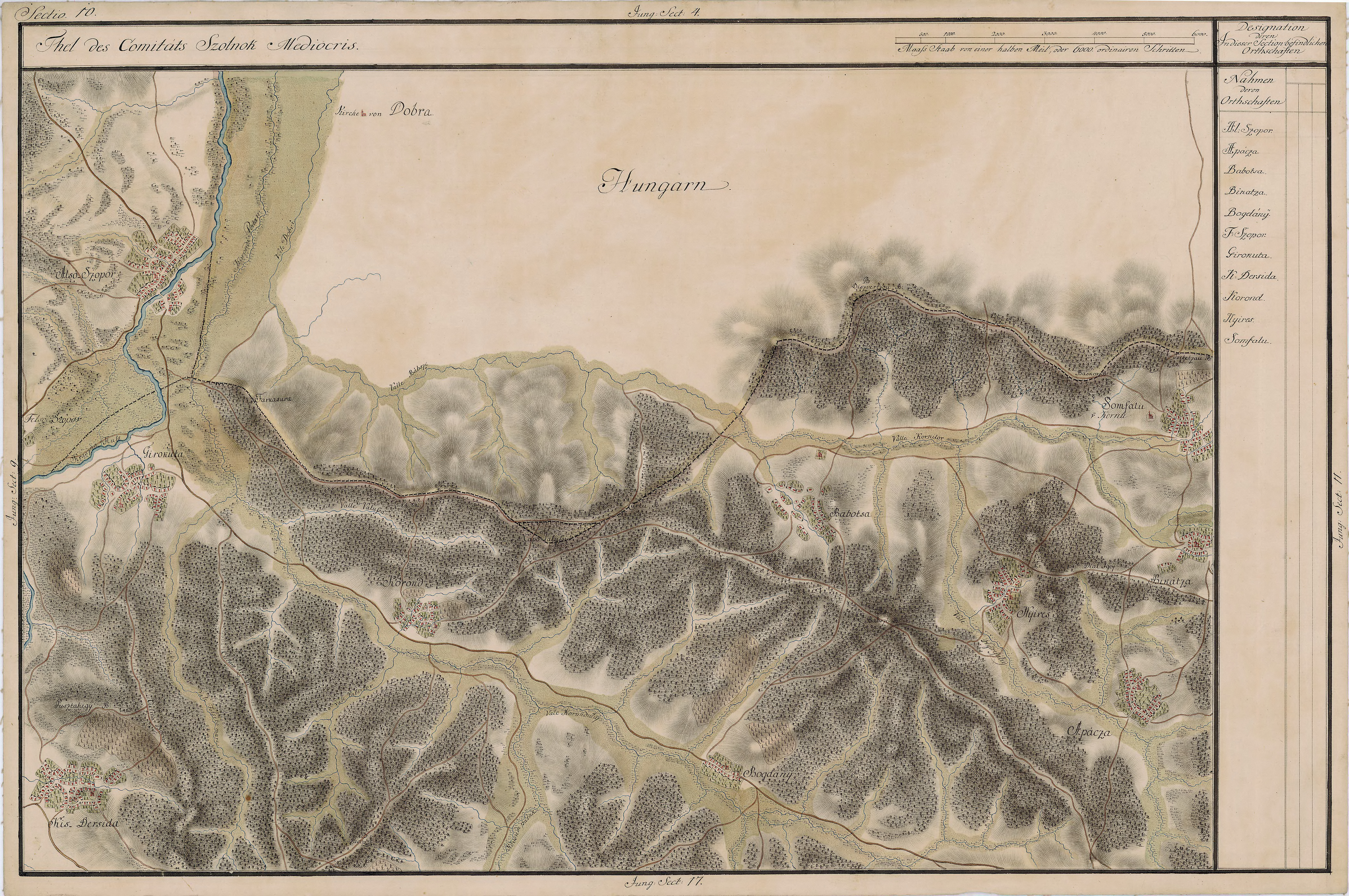 Grand Duchy of Transylvania, 1769-1773. Josephinische Landaufnahme pg.010